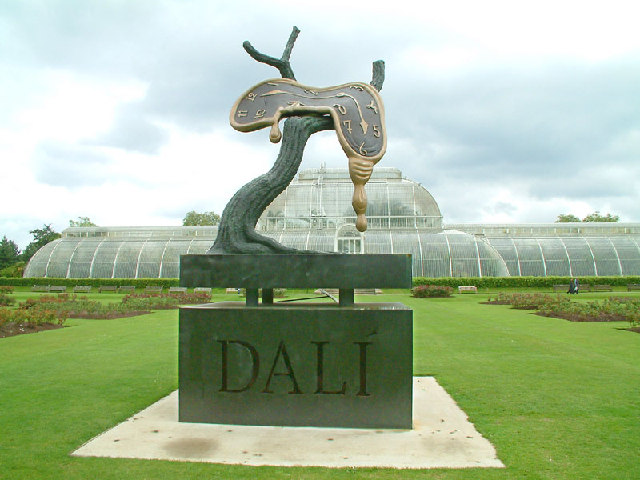 Palm House at Kew Gardens. Outside the Palm House in the Rose Garden at Kew is this bronze sculpture "The Profile of Time", inspired by Salvador Dali's 1931 painting "The Persistence of Memory".